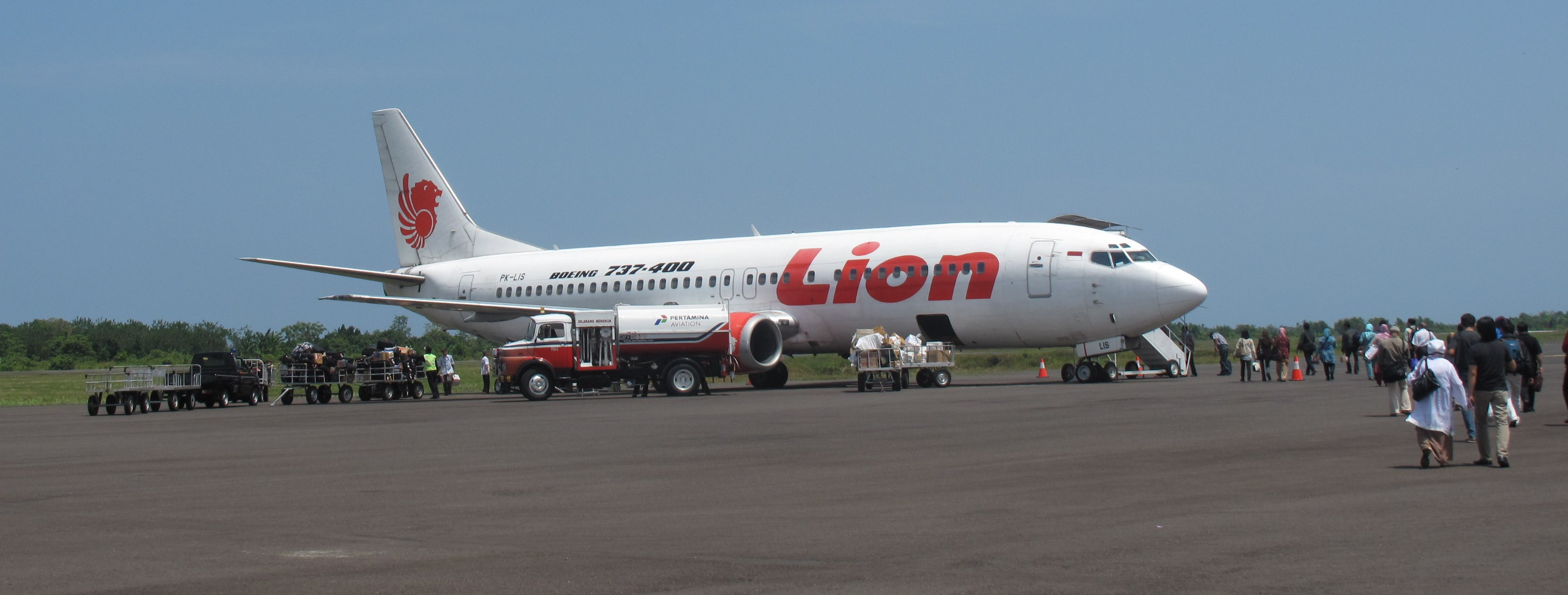 Lion Air 737-400 PK-LIS at Fatmawati Soekarno Airport